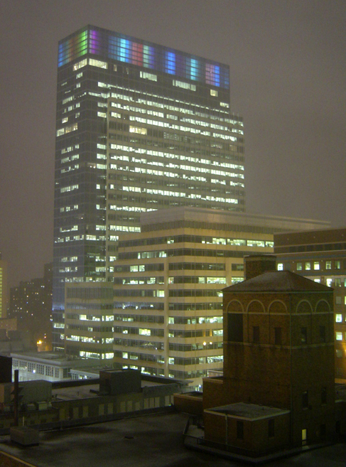 Target Plaza South, a skyscraper in downtown Minneapolis, Minnesota - part of the headquarters of Target